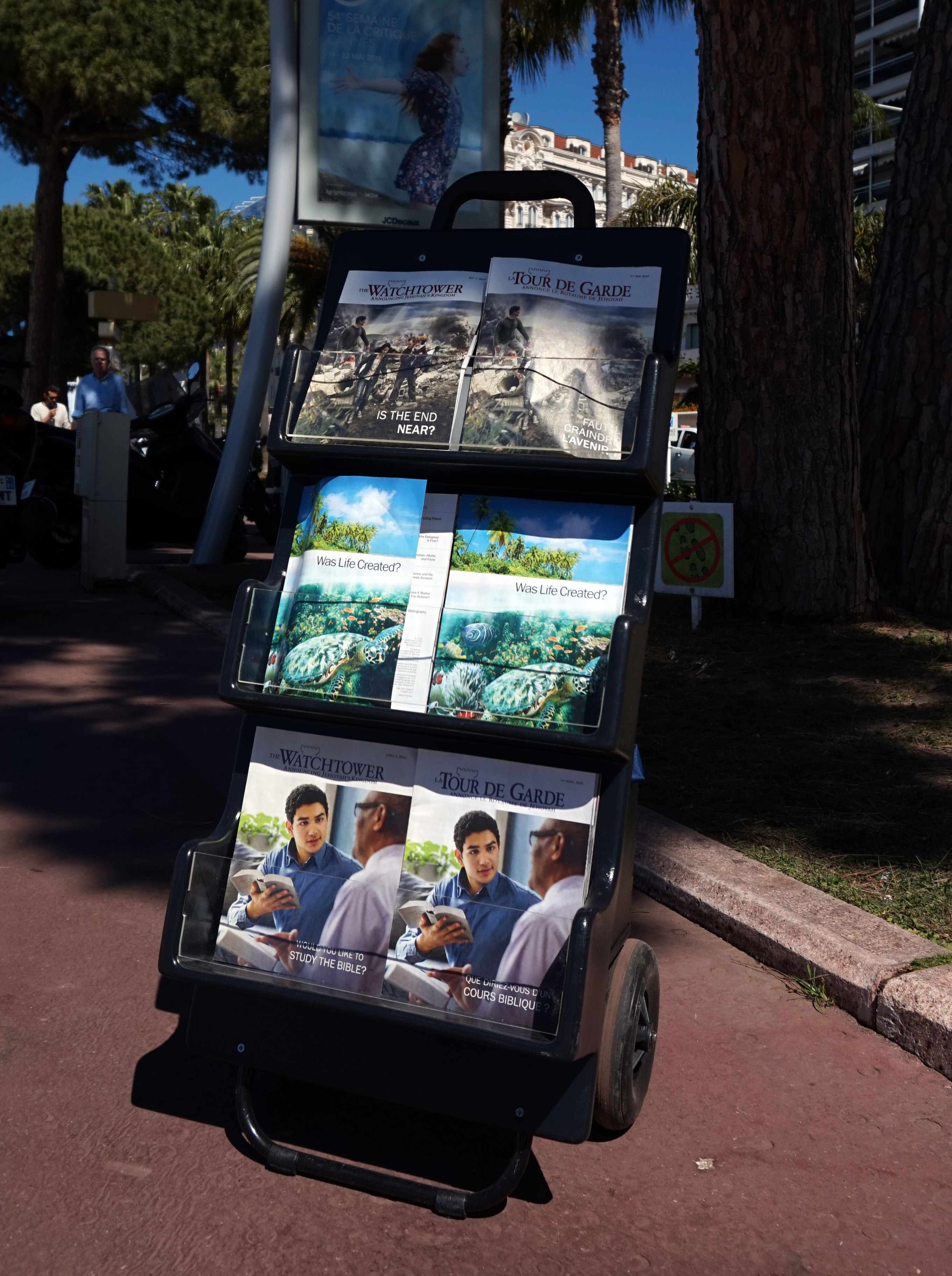 Jehovah's witnesses literature on a promenade next to the street Boulevard de la Croisette in Cannes. This photograph was taken with a Sony Alpha a5000.